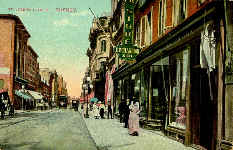 Old post card depicting St. Joseph Street in Quebec, circa 1905, with E. P. Charlton & Co. store in foreground.